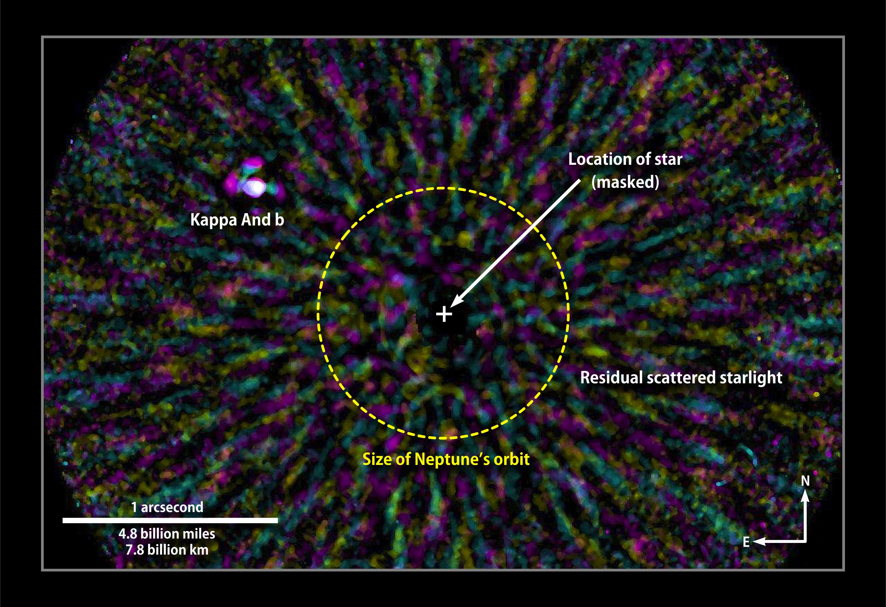 Image showing the directly imaged extrasolar planet, Kap And b, a Super-Jupiter with an estimated model-dependant mass of 12.8 Jupiter masses.